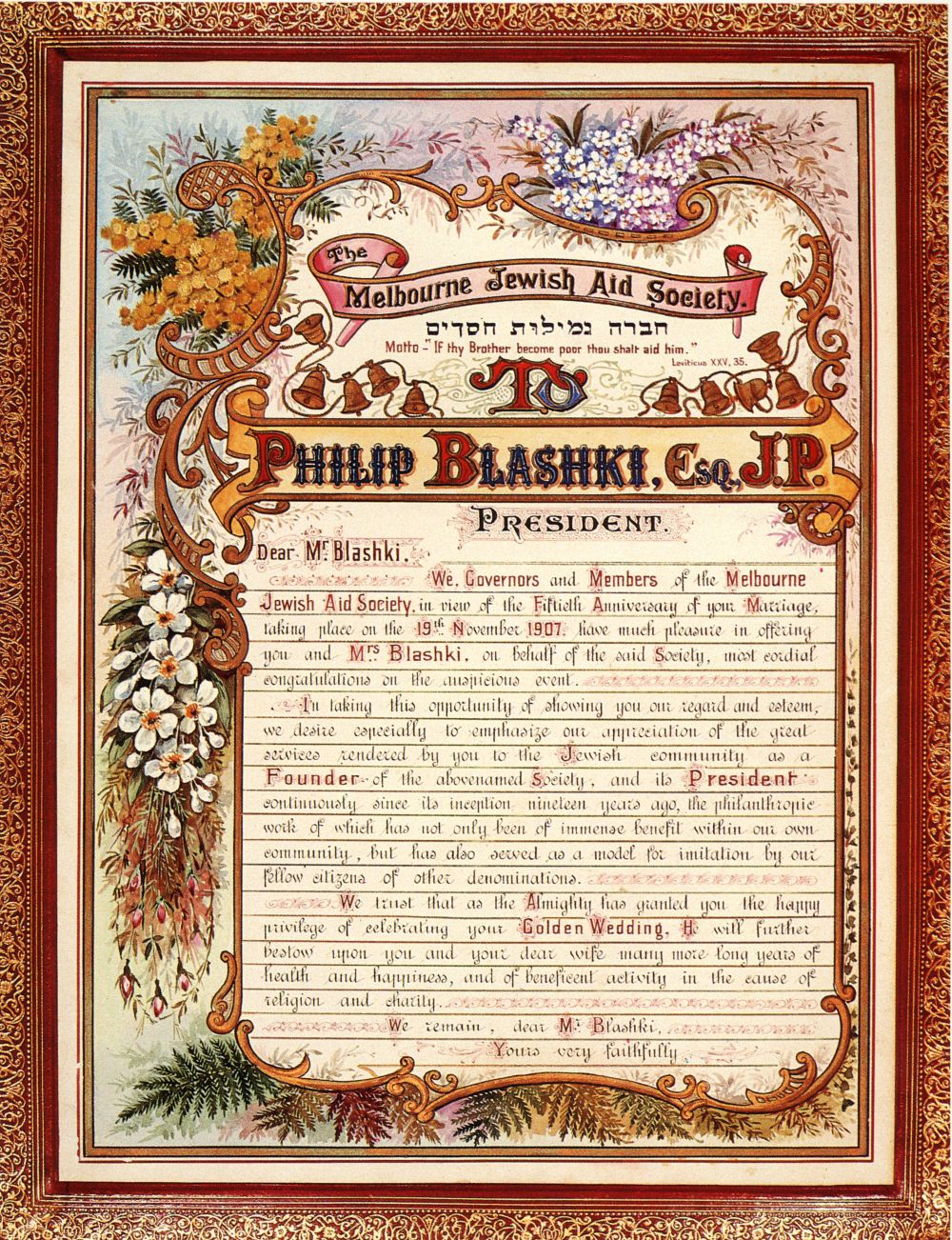 Photograph of an Illuminated Address from the Jewish Aid Society